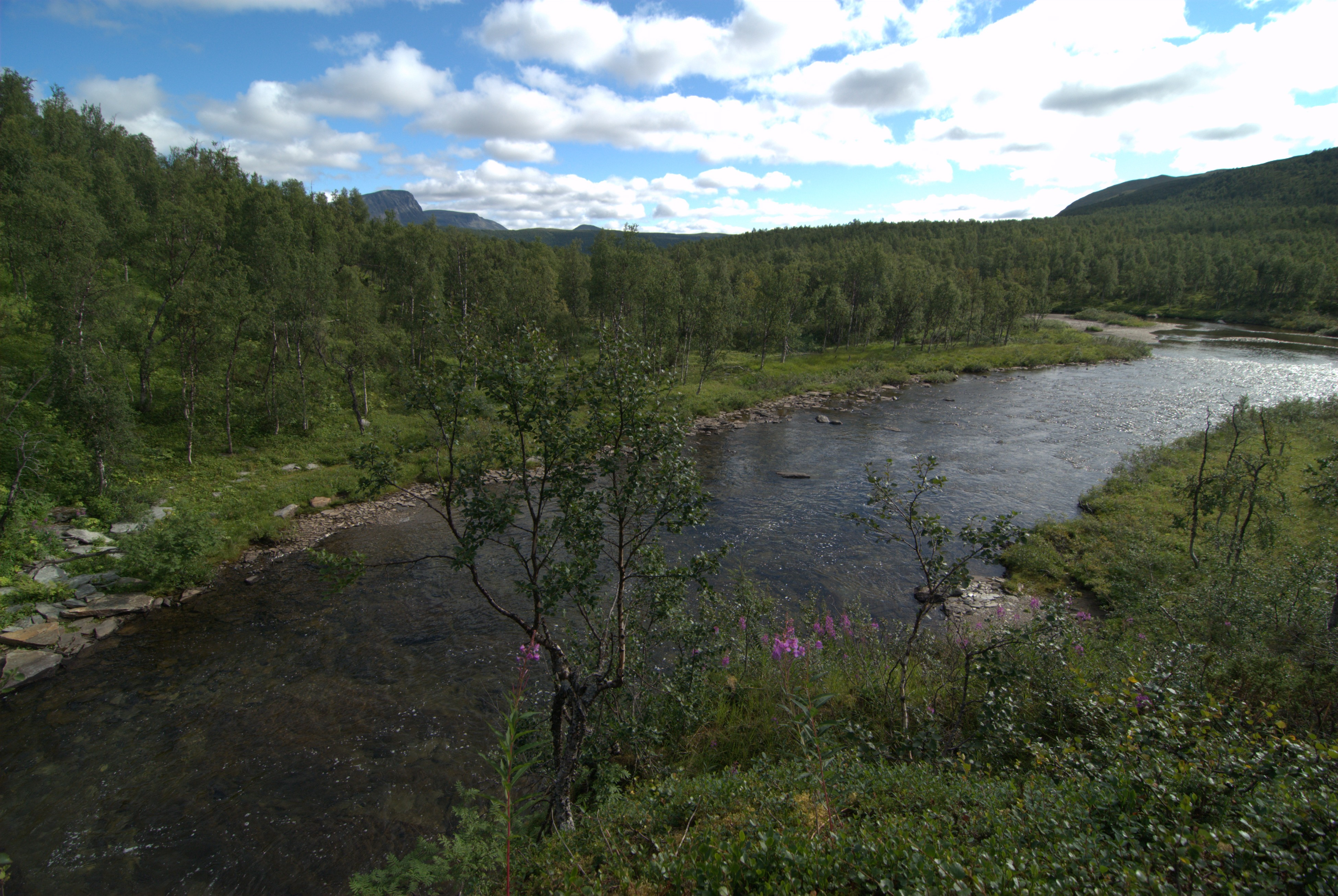 Birch forest near Serve in Vindelfjällen nature reserve.